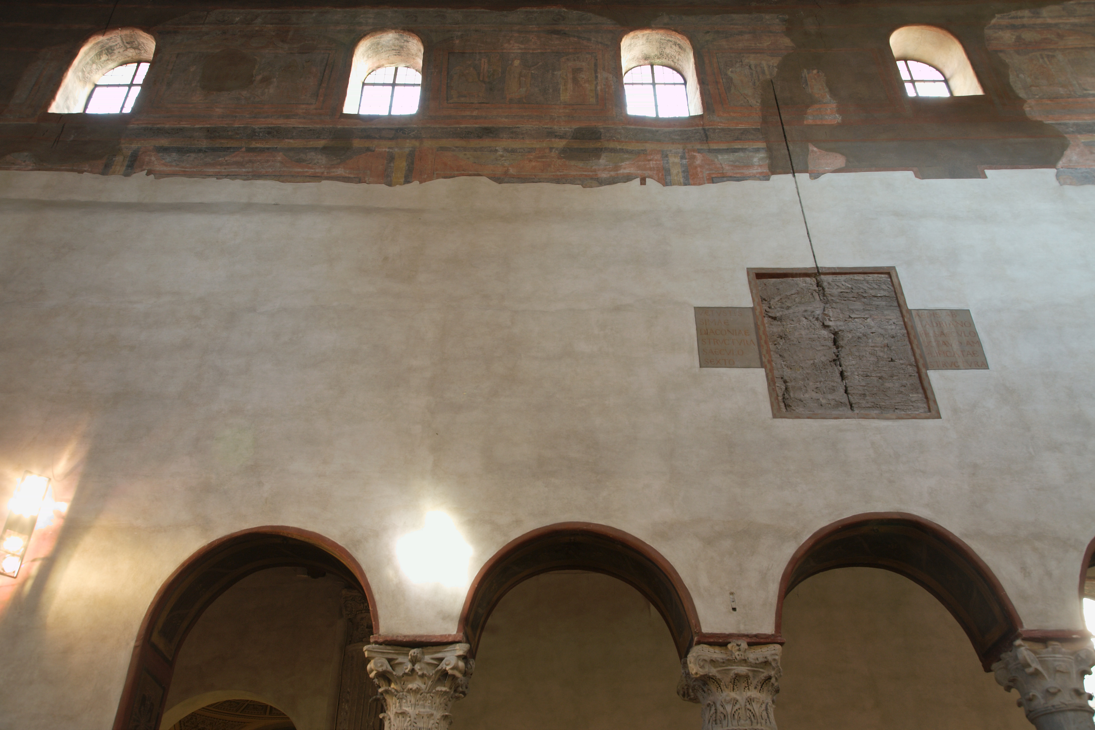 Santa Maria in Cosmedian frescos on the left side